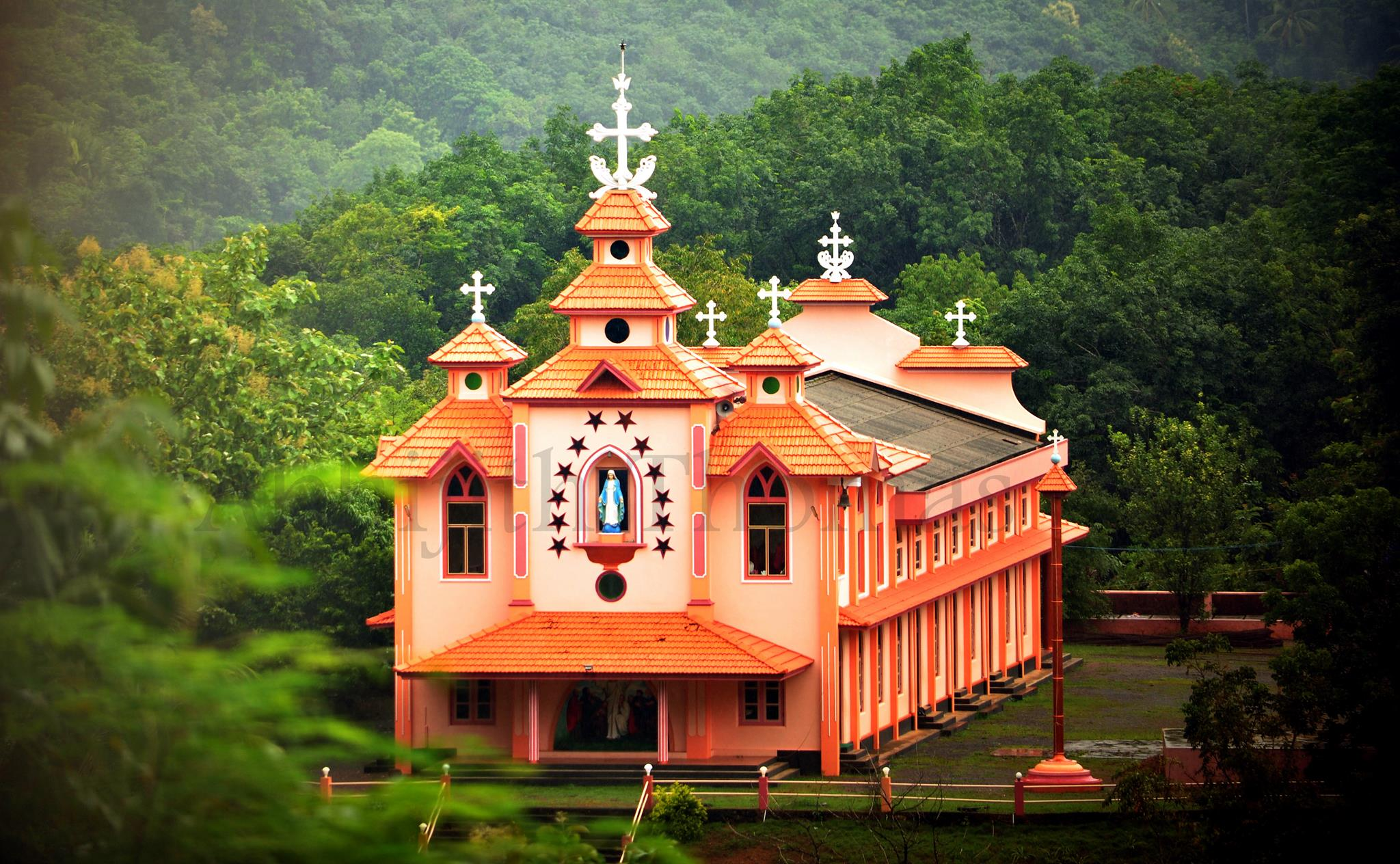 Thalassery Arch Diocese